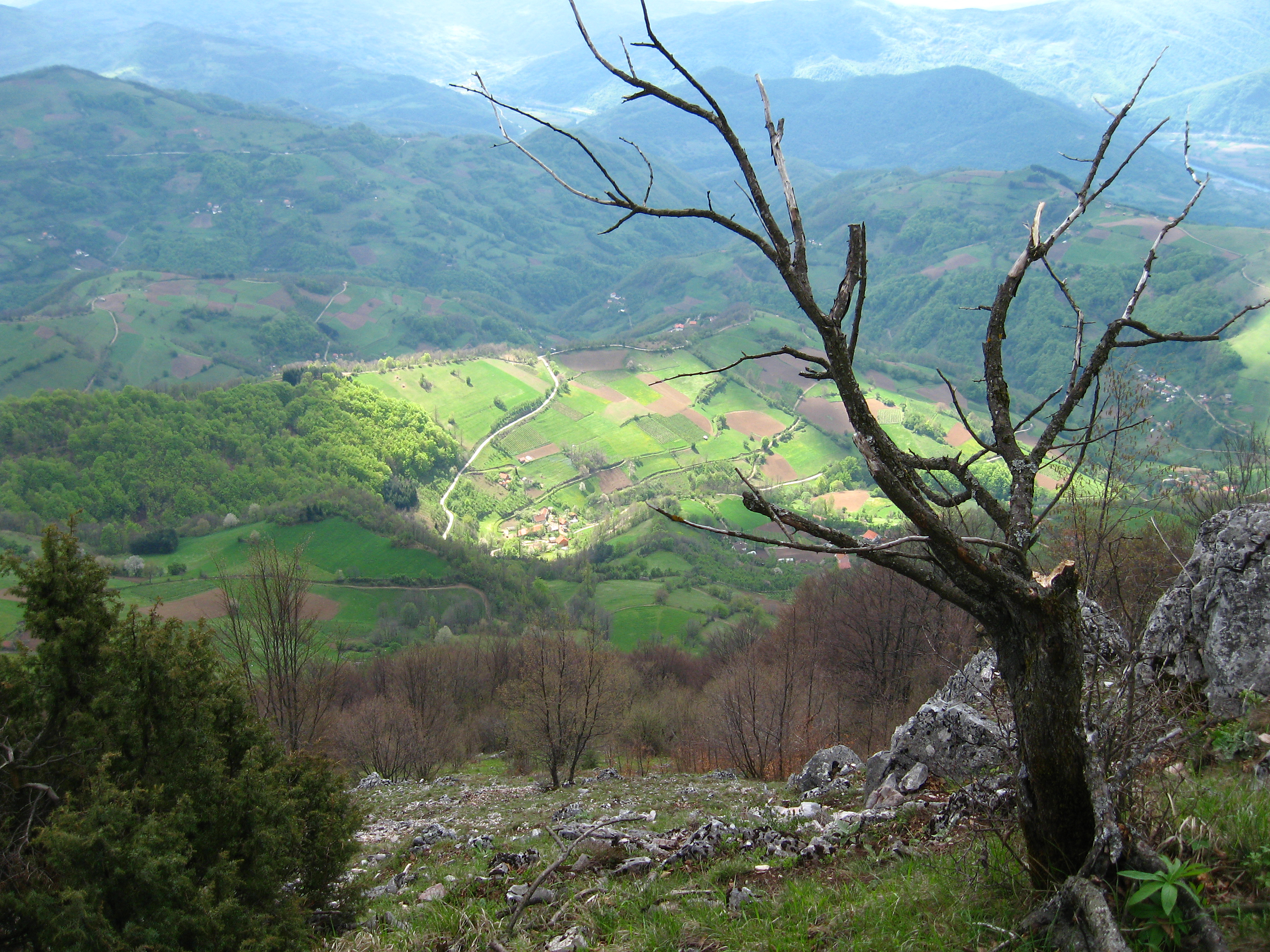 Povlen - Western Serbia - Place Zarožje - Red Rocks - View of the river Drina 1